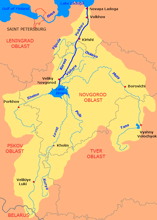 Drainage basin of the Volkhov River and Lake Ilmen. A derivative of File:Volkhov-Ilmen.png by СафроновАВ